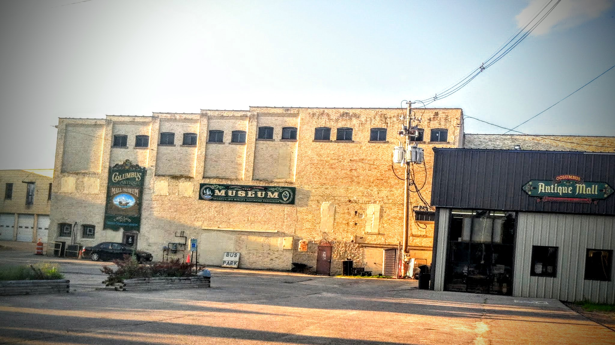 Christopher Columbus Museum Columbus Wisconsin